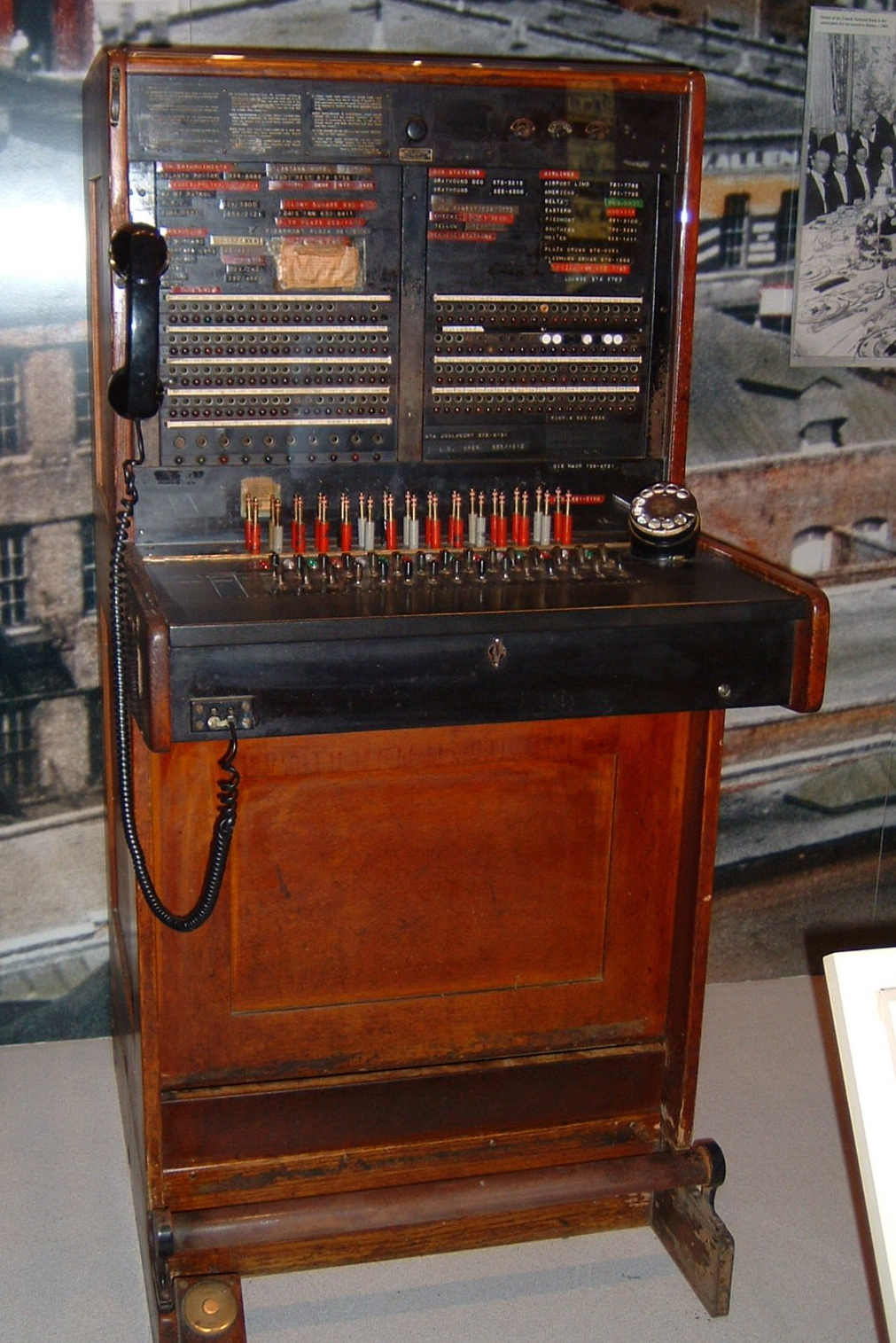 1924-era telephone switchboard on display at the Atlanta History Center in Atlanta, Georgia. Original description reads: Can I direct you? An authentic switchboard from 1924. Listed numbers include: Delta, Greyhound, DeKalb & Atlanta Police, GA Baptist, Emory, Piedmont, and Crawford Long Hospital.